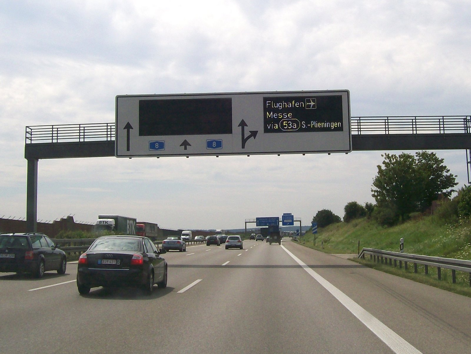 Electronic road sign on BAB 8 near Stuttgart